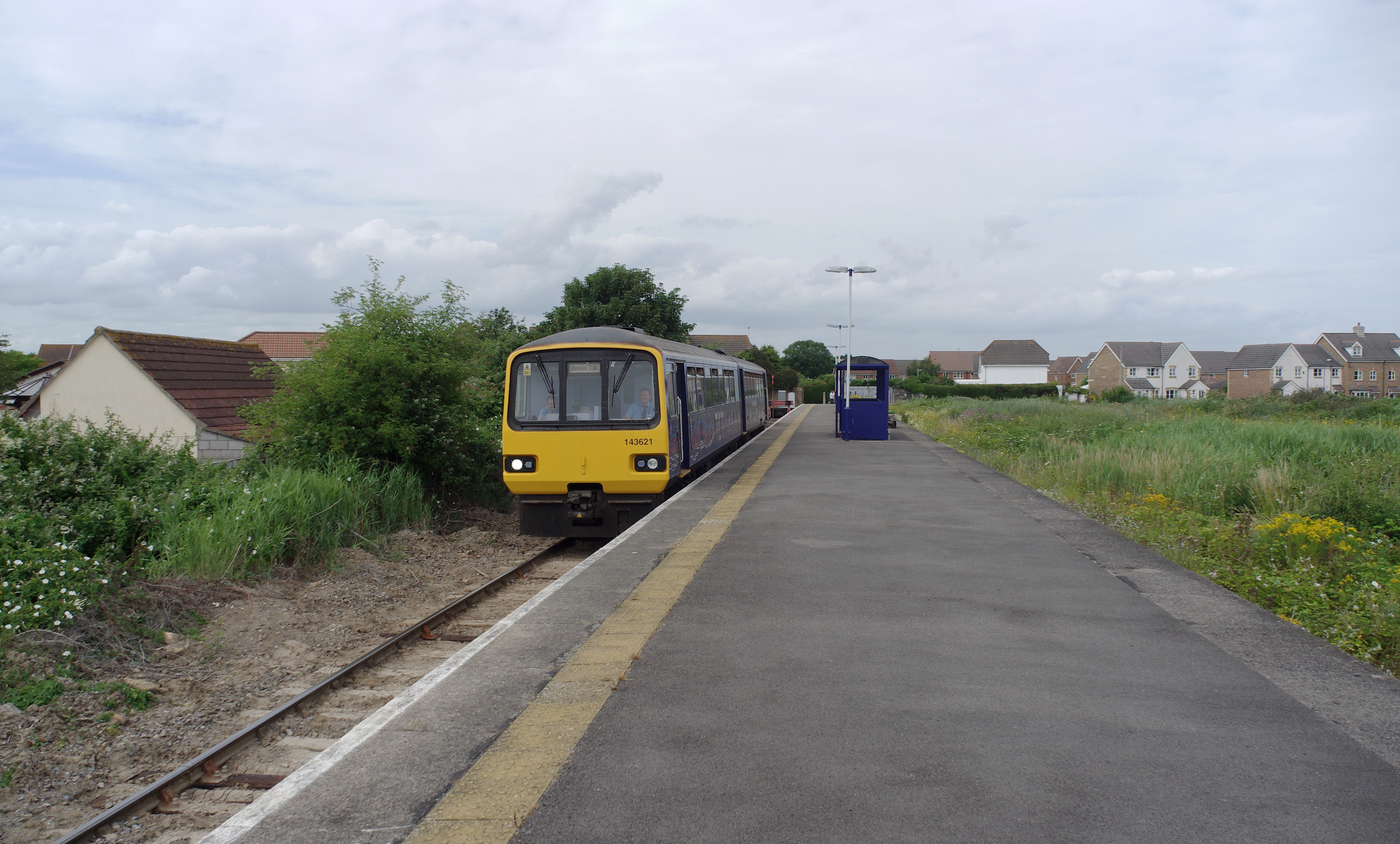 Looking north along the platform at Severn Beach railway station, with First Great Western 143621 standing with a terminating service from Bristol Temple Meads.